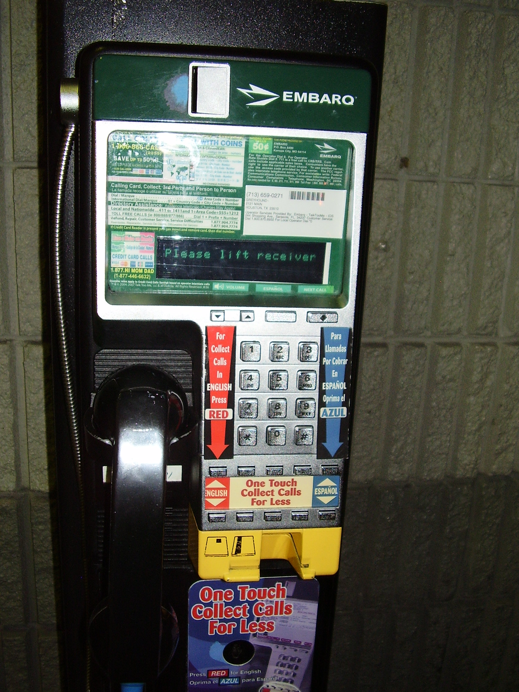 Embarq pay phone in Houston Greyhound Station